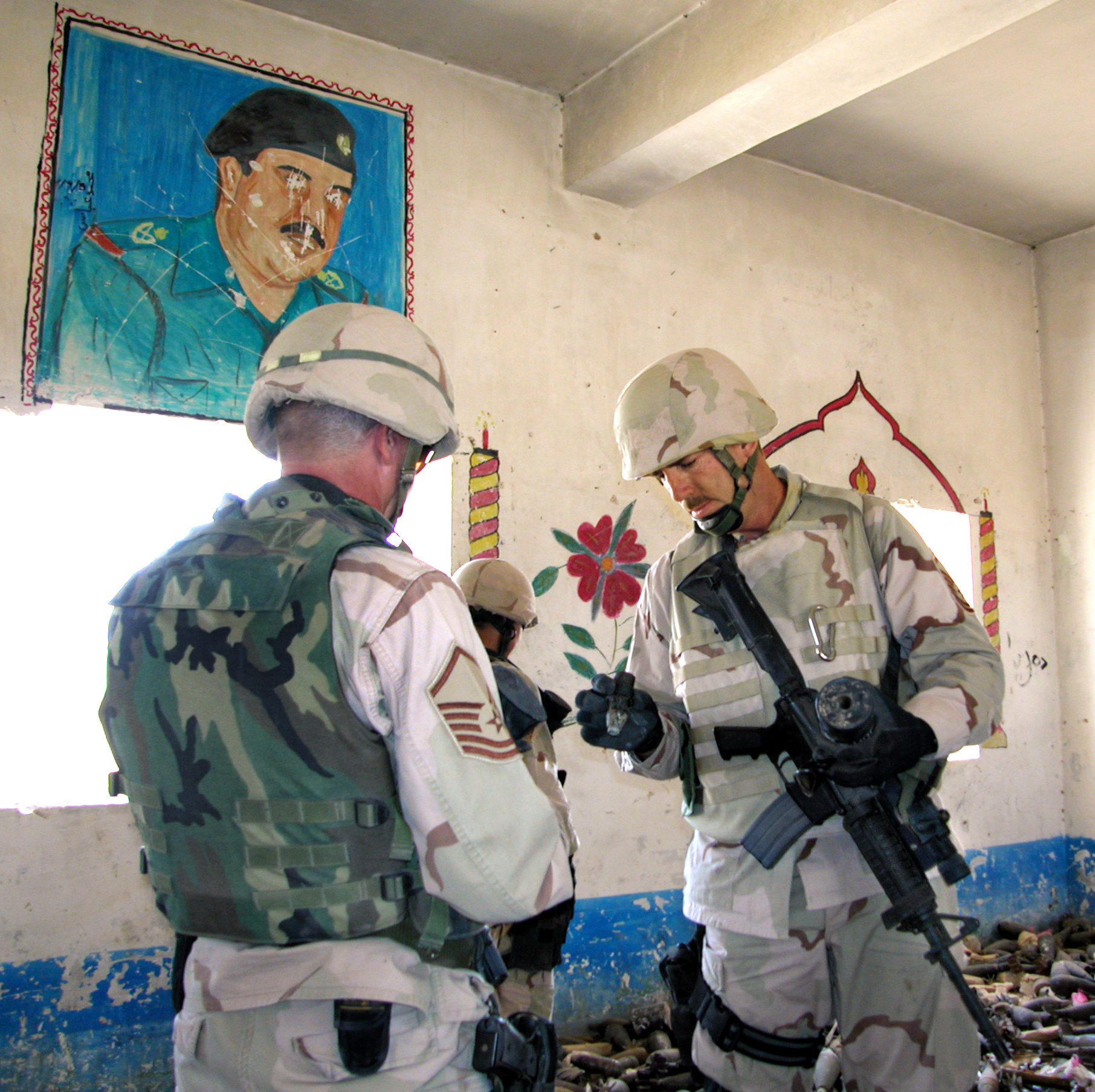 "KIRKUK, Iraq -- Master Sgts. Dale Griffin (right) and Jerry Dunn examine Iraqi munitions during a search of a former Republican Guard facility here. The search uncovered both inert and live ordnance, all of which was subsequently removed and destroyed." From [1]. Ð¡Ð»Ð¸ÐºÐ°:Republican guard facility.jpg